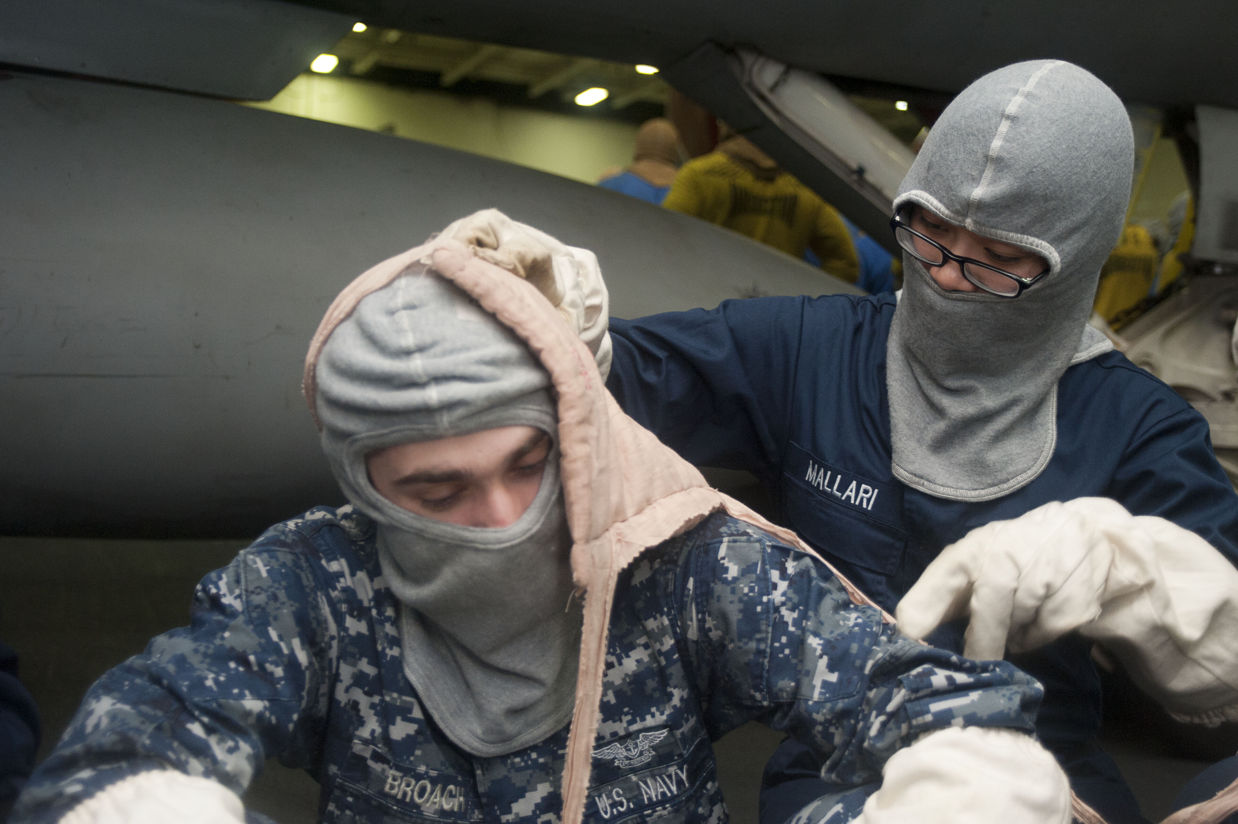 PACIFIC OCEAN (Sept. 4, 2012) Aviation Maintenance Administrationman Airman Charlene Mallari, from San Diego, right, wraps a field dressing on Aviation Electronics Technician 3rd Class Travis Broach, from Bryan, Texas, during a general quarters drill aboard the aircraft carrier USS George Washington (CVN 73). (U.S. Navy photo by Mass Communication Specialist 3rd Class William Pittman/Released) 120904-N-SF704-045 Join the conversation navylive.dodlive.mil